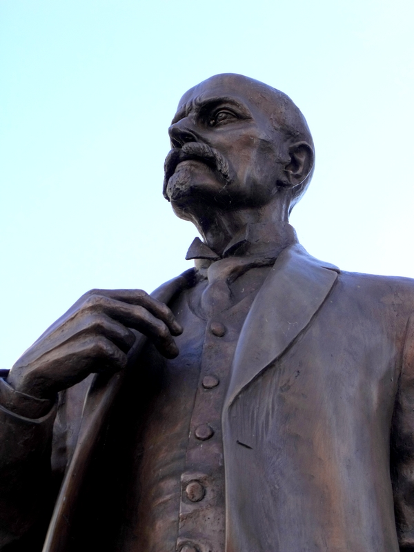 Statue of T. G. Masaryk in Karlovy Vary